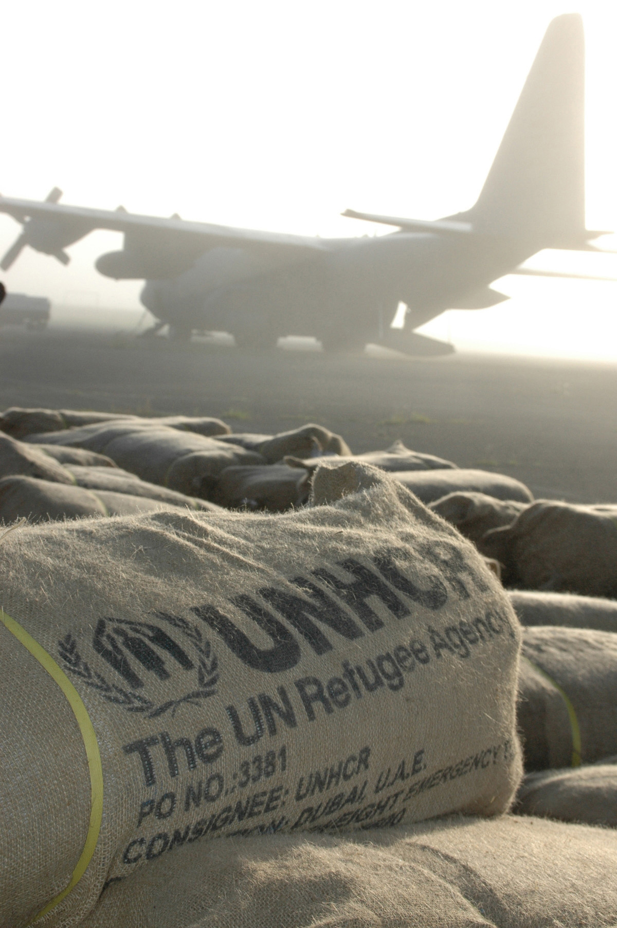 Packages containing tents, tarps, and mosquito netting sit in a field in Dadaab, Kenya, December 11, 2006, after being delivered via C-130 Hercules aircraft by U.S. service members assigned to Combined Joint Task Force - Horn of Africa. The organization is providing humanitarian aid and relief supplies to the approximately 160,000 people stranded by recent flooding in rural areas of Kenya. DoD photo by Tech. Sergeant Steve Staedler, U.S. Air Force. (Released) (Released to Public) Location: DADAAB REGION, KENYA AFRICA 3